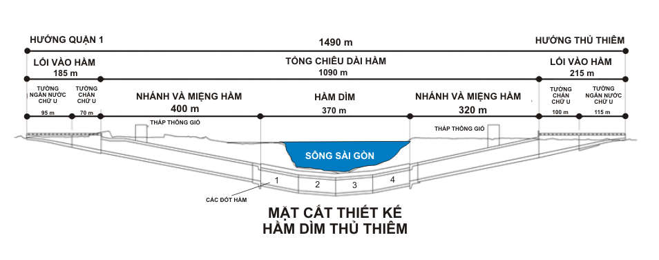 Plan Thủ Thiêm Tunnel